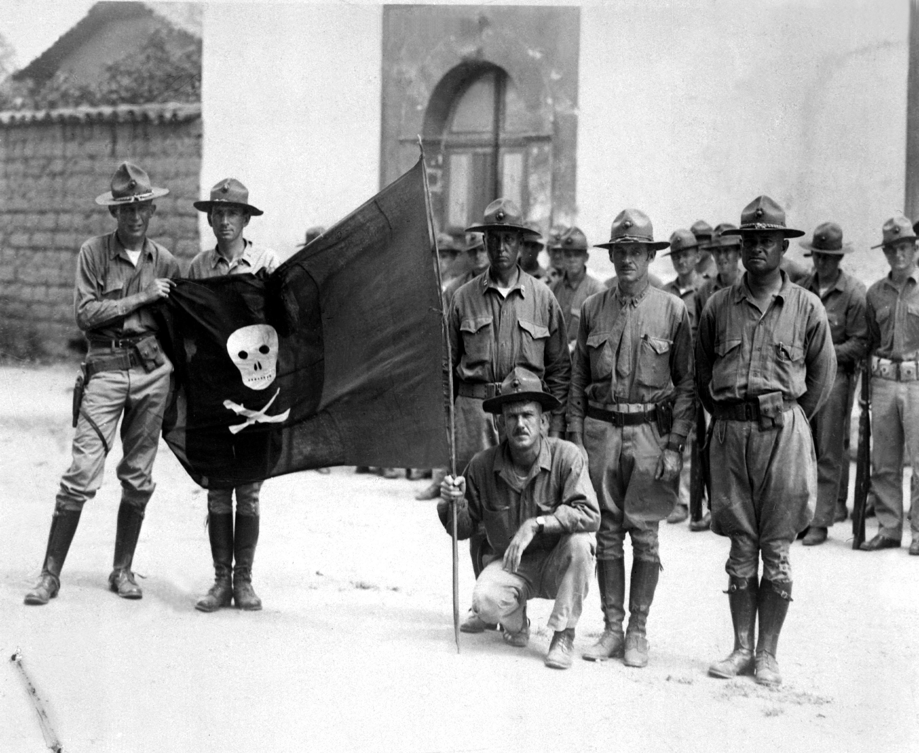 Sandino's Flag. Nicaragua, 1932. (Marine Corps) EXACT DATE SHOT UNKNOWN NARA FILE #: 127-N-516038 WAR & CONFLICT BOOK #: 376